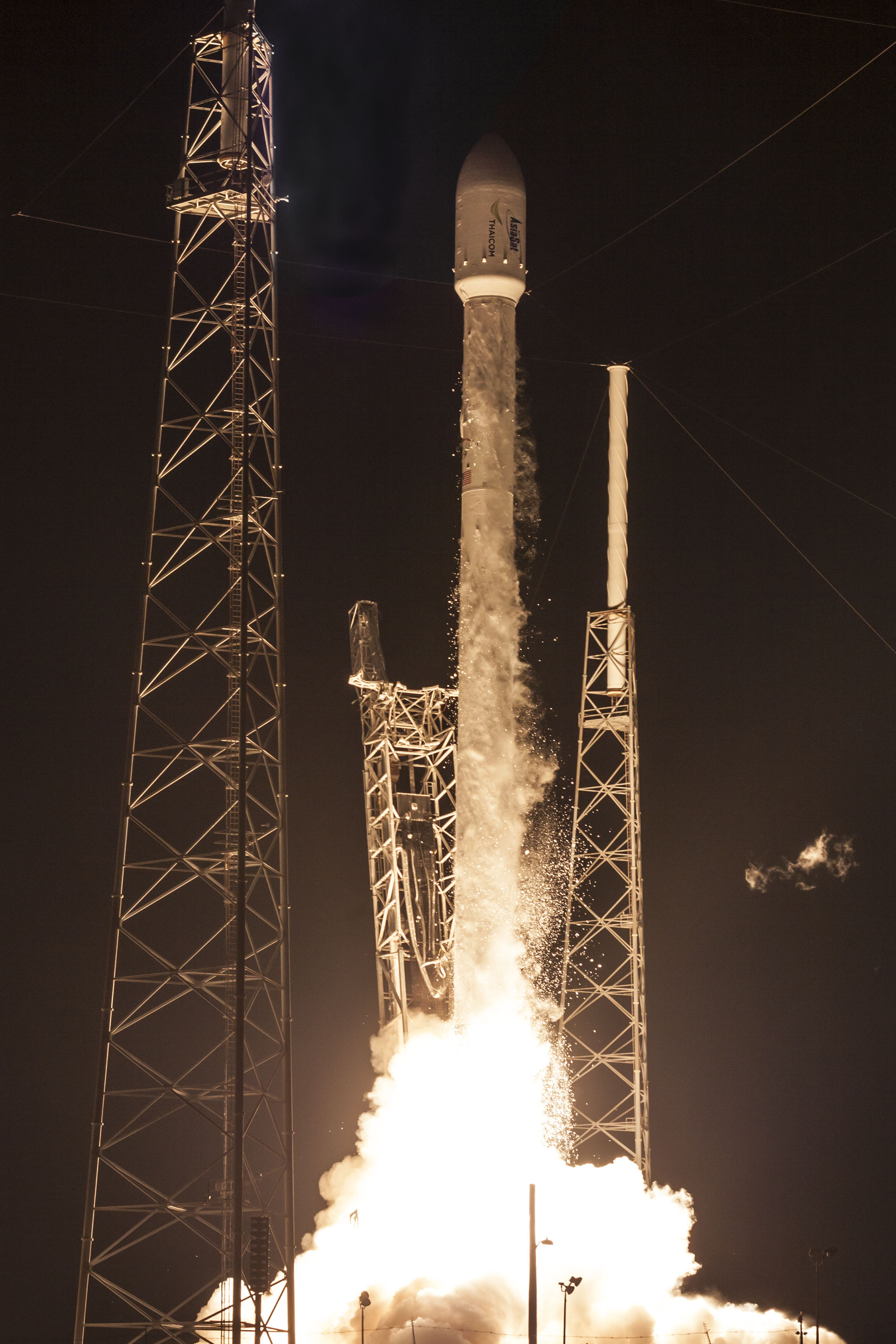 SpaceX's Falcon 9 rocket launched the AsiaSat 6 satellite to a geosynchronous transfer orbit in the early morning hours of Sunday, September 7th, 2014.